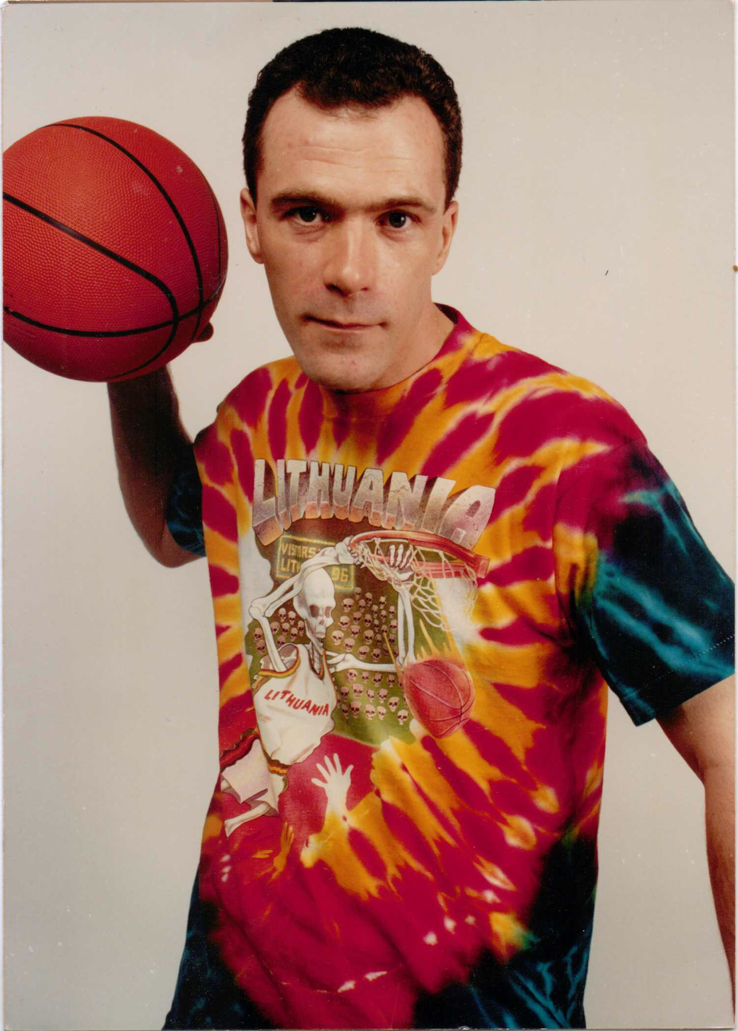 Greg Speirs is the sports artist who created the Lithuanian Olympic Tie Dyed warm-up uniforms and is in the cast of the 2012 documentary film, "The Other Dream Team".